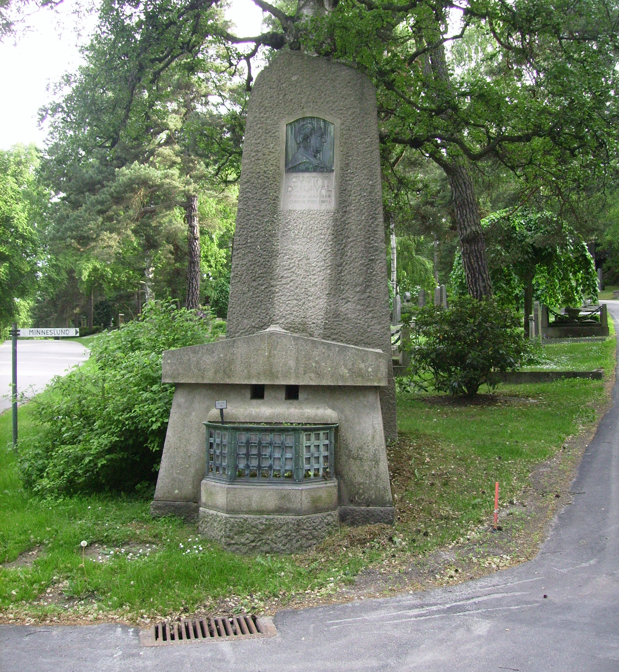 Picture of Gustaf de Laval's grave at Norra begravningsplatsen in Solna